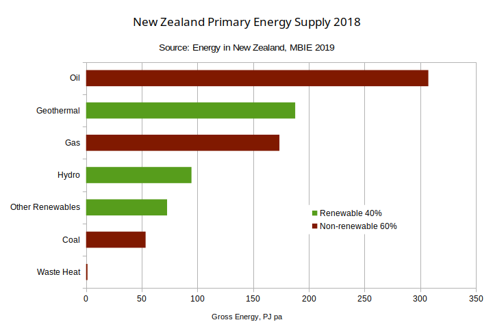 Graph of primary energy supply in New Zealand 2019, by type